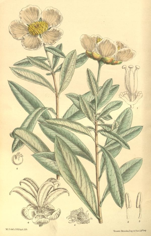 Illustration of Crossosoma californicum